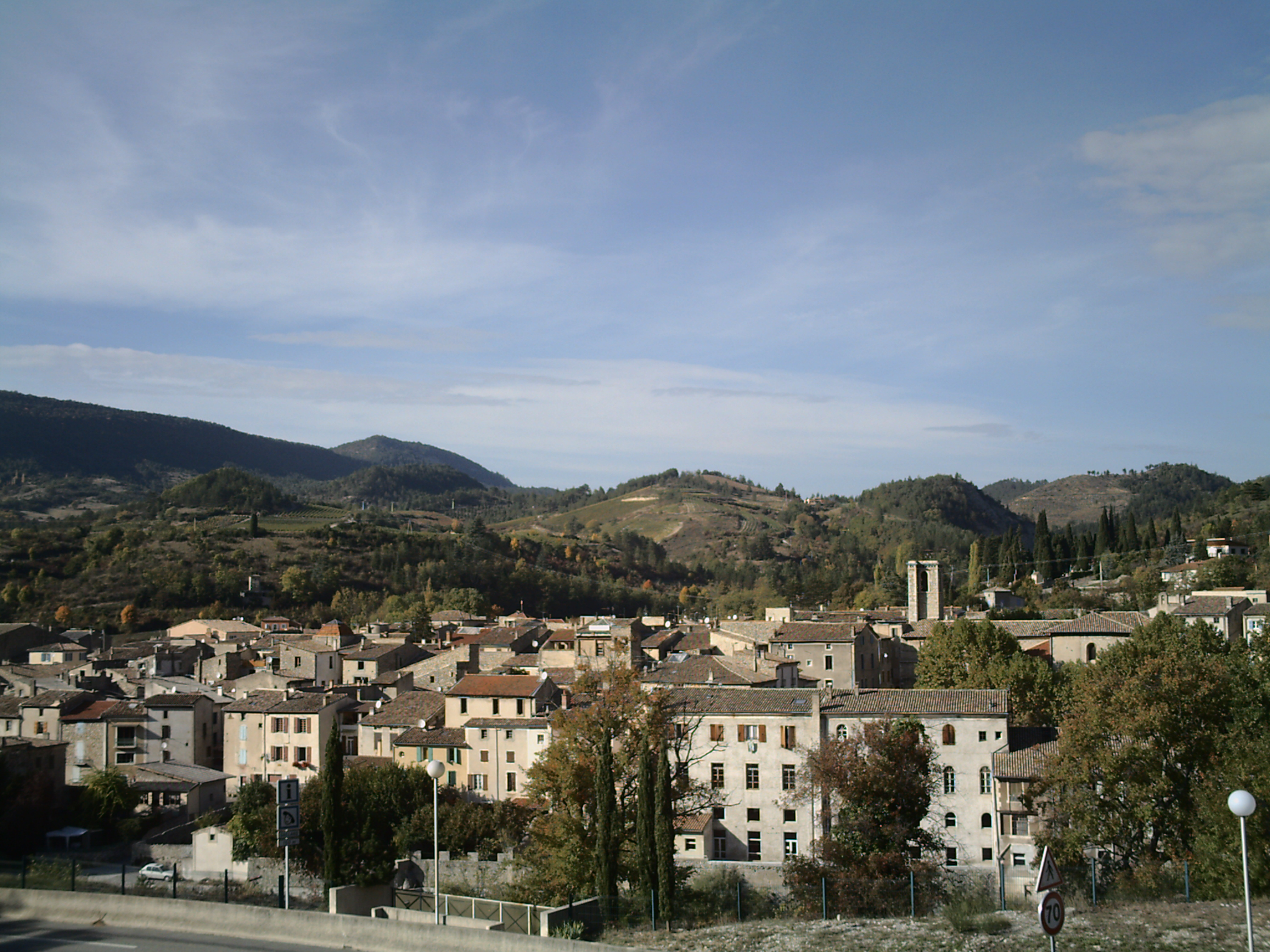 Town of Saillans, Drôme, France